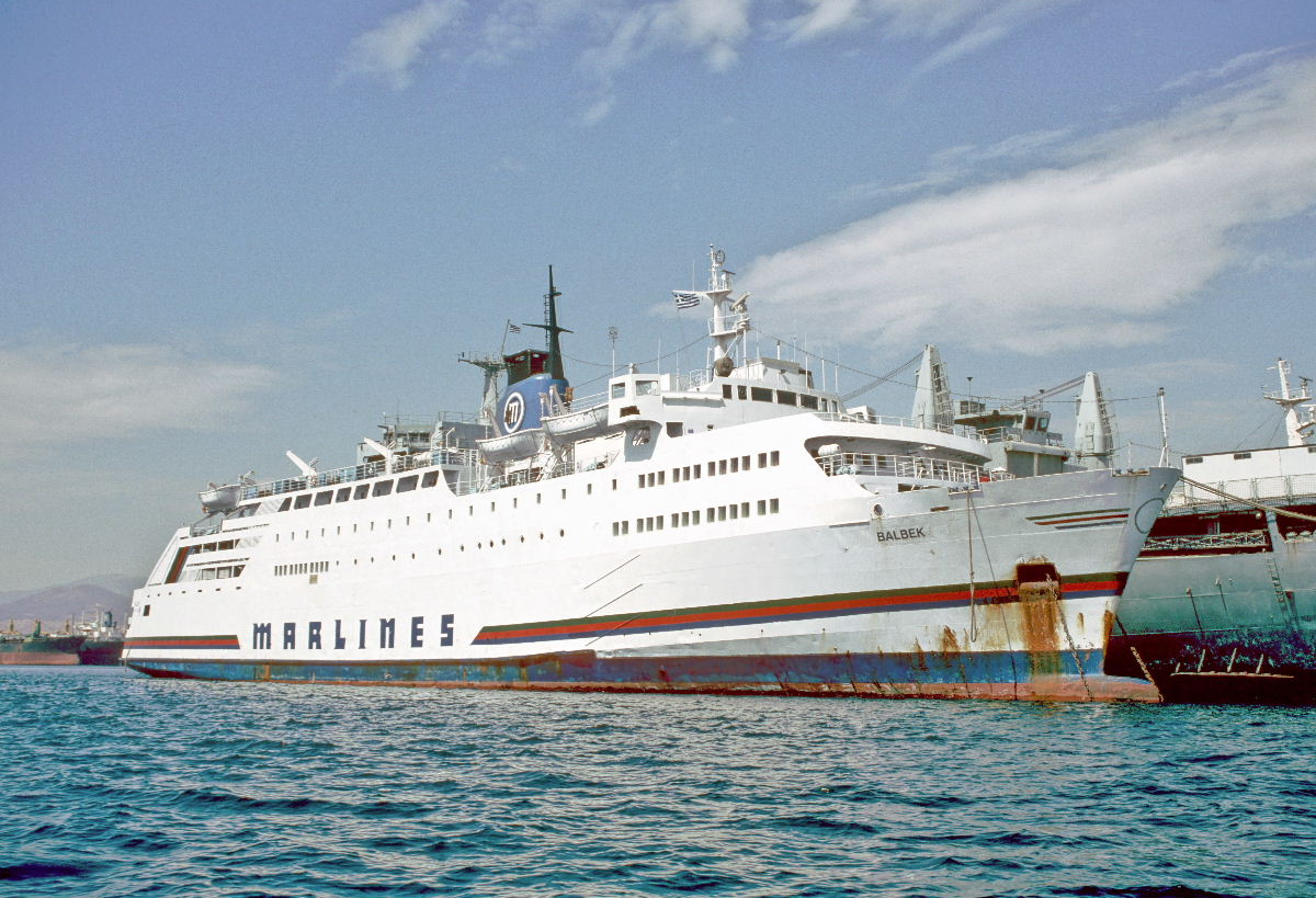 The ferry Balbek laid up in Eleusis in 2000.